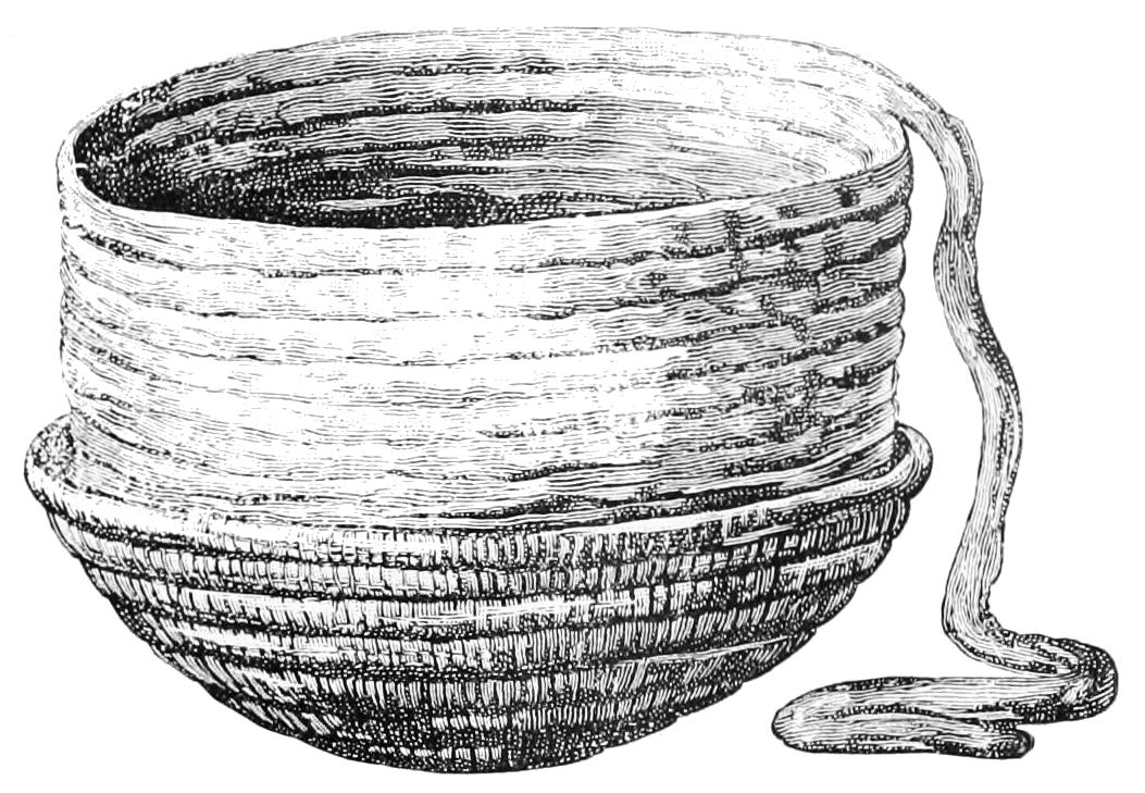 Making coiled ware in basket bowl